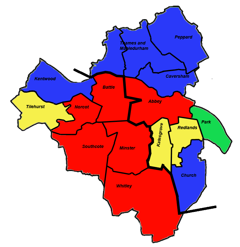 Graphic showing the electoral make-up of Reading Borough Council after the 2010 Local Election.